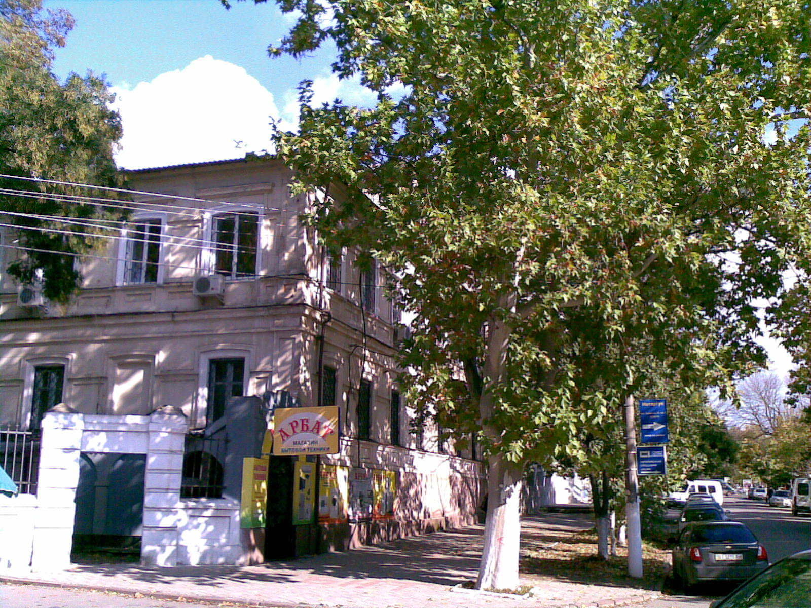 Kherson-22102009(012)